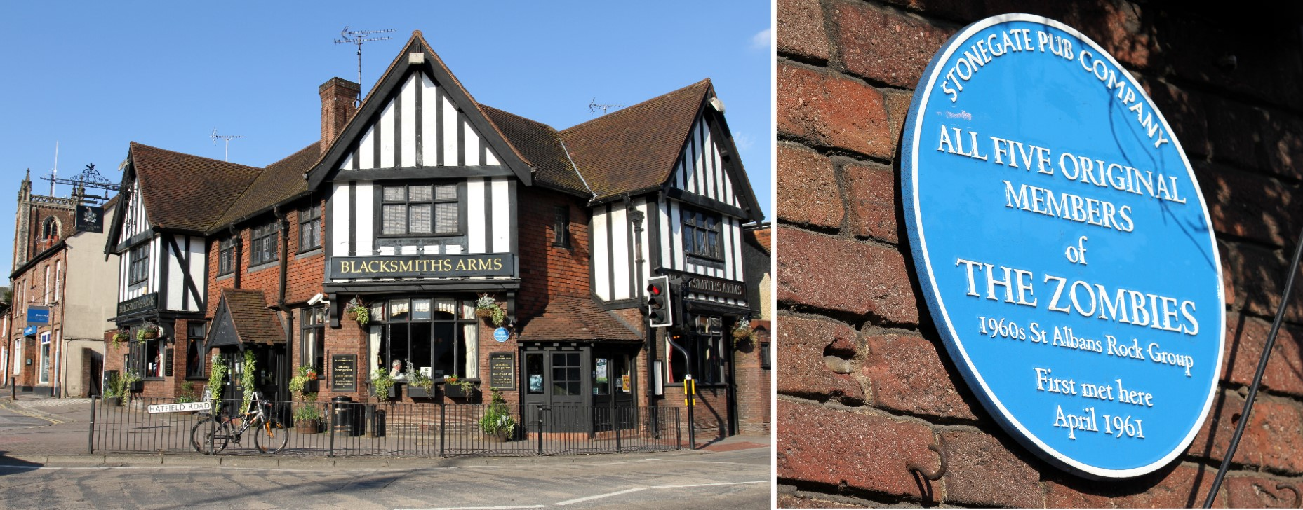 The Blacksmiths Arms public house in St. Albans, Hertfordshire, England where the pop group 'The Zombies' first met, with a commerative Plaque.